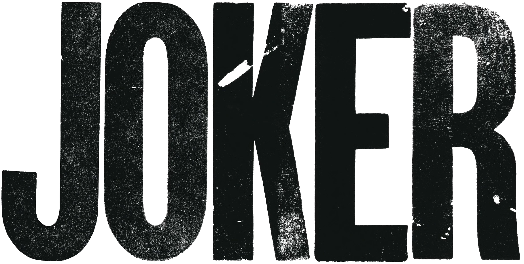 Logotype for the film Joker (2019).